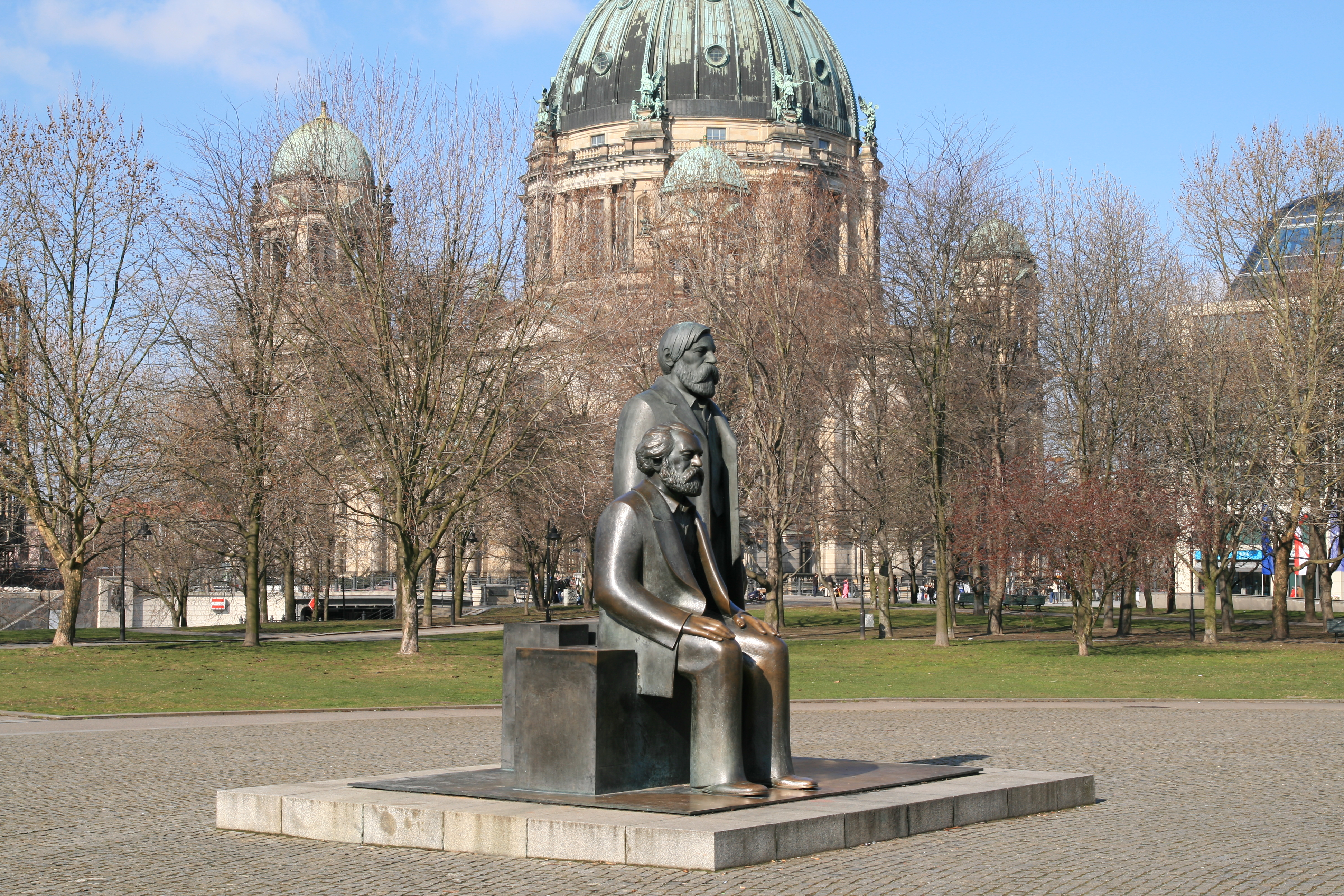 This monument, of the founding fathers of Communism - Karl Marx and Friedrich Engels, is located in the Marx-Engels-Forum, which is a public park close to the Berliner Dom (seen behind the monument). The park was created by the authorities of the former DDR in 1986.